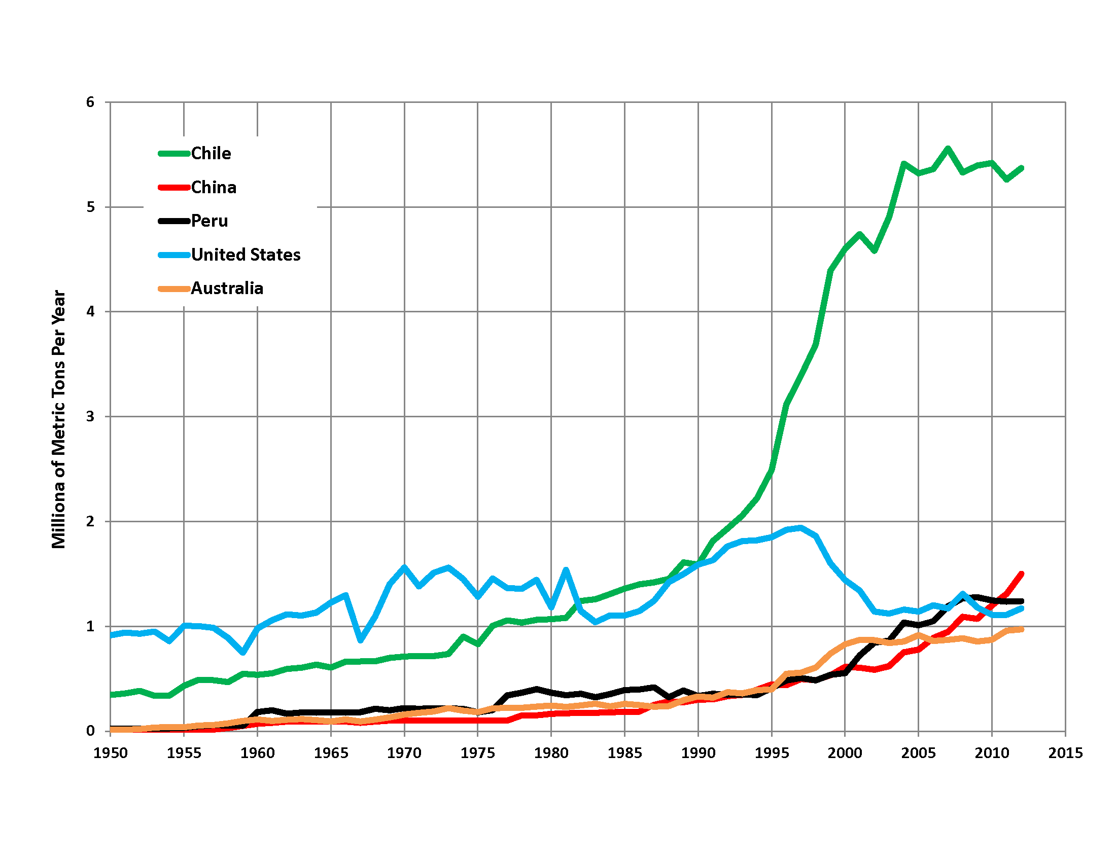 Production trends in the top five copper-producing nations